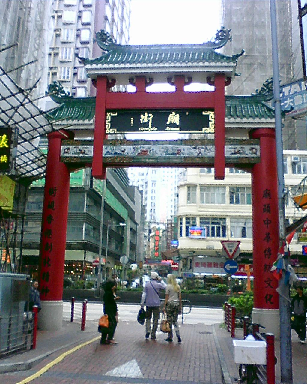 Gate of Temple Street in Hong Kong. 中文（香港）: 香港廟街內望門樓。